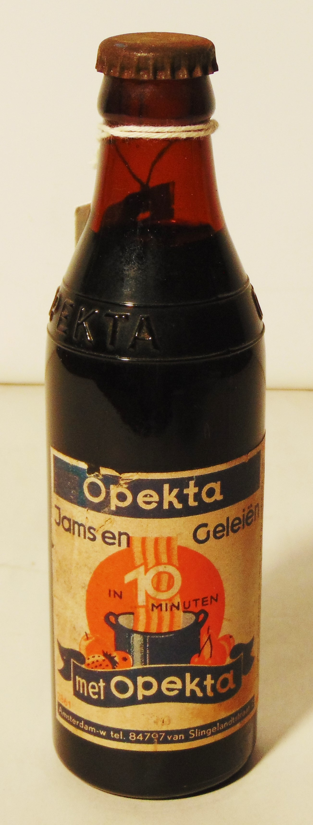 Bottle of Opekta for Jam and Gelatine from the factory where Otto Frank (father of Anne Frank) was director. Photographed in the collection of the National Liberation Museum 1944-1945, the Netherlands. Collection number 098.019